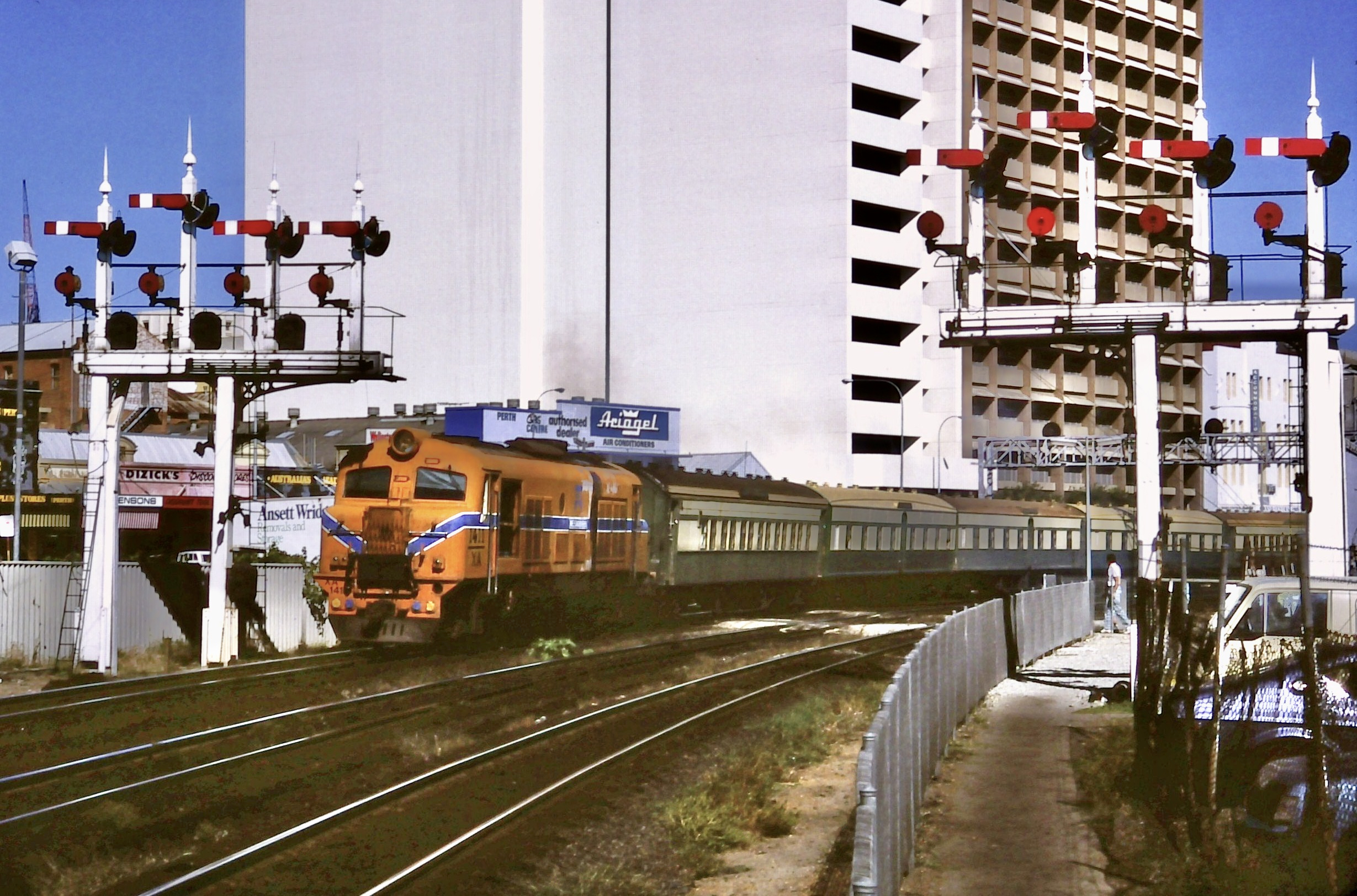 With the headquarters of the State Energy Commission of Western Australia in the background, Western Australian Government Railways (WAGR) X class locomotive no XA1411 Weedookarri, in Westrail orange and blue livery, swings around the bend east of Perth railway station as it approaches the Moore Street level crossing with a Bunbury-bound The Australind train from Perth. In 1987, this locomotive-hauled set of coaches was replaced by a diesel multiple unit train that, as of 2012, was still in service, as the Transwa Australind.Kodachrome slide converted by Kaiser Baas Photo Maker Pro into a digital image.